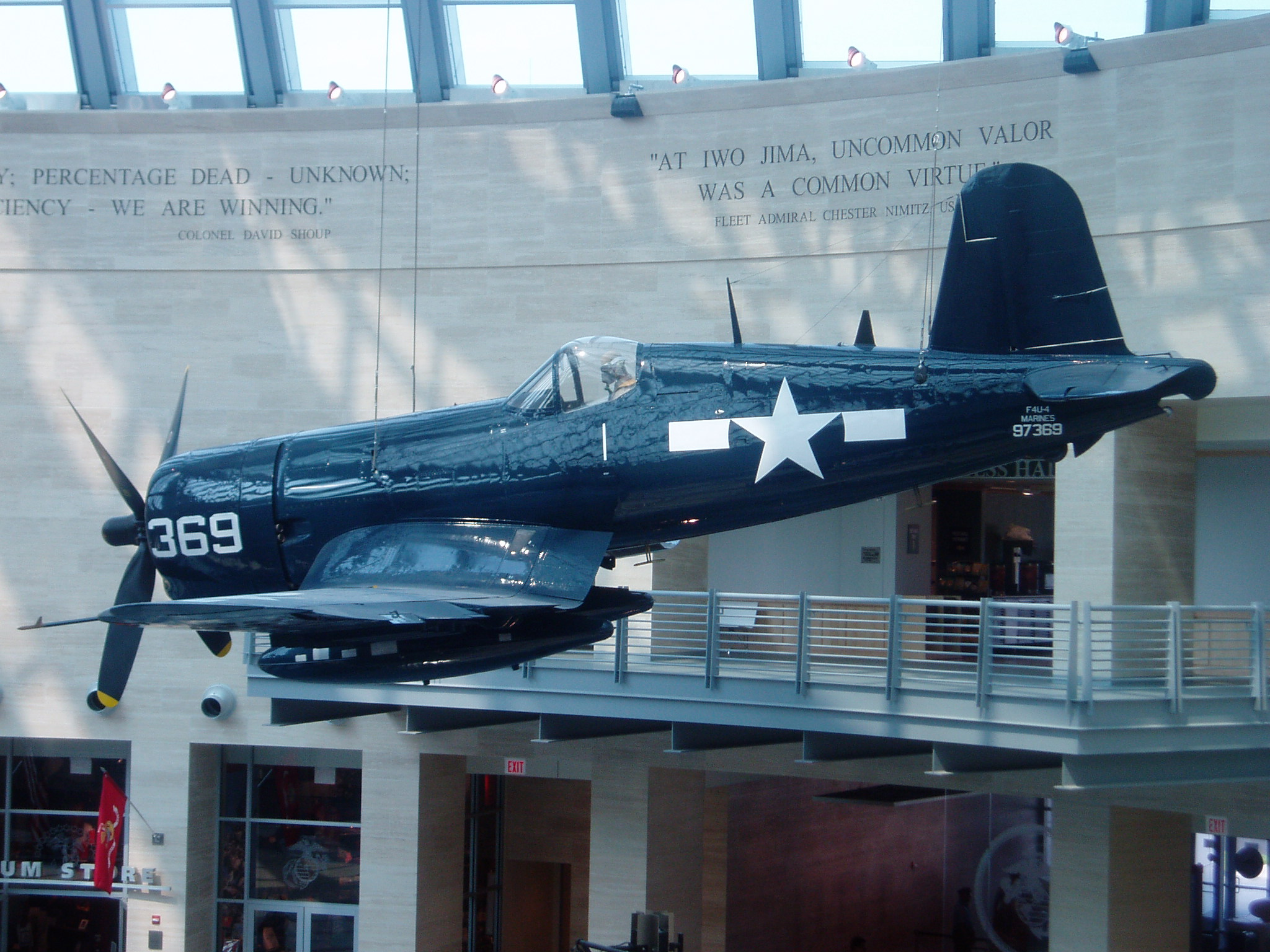 An F4U Corsair (97369) on display at the National Museum of the Marine Corps.